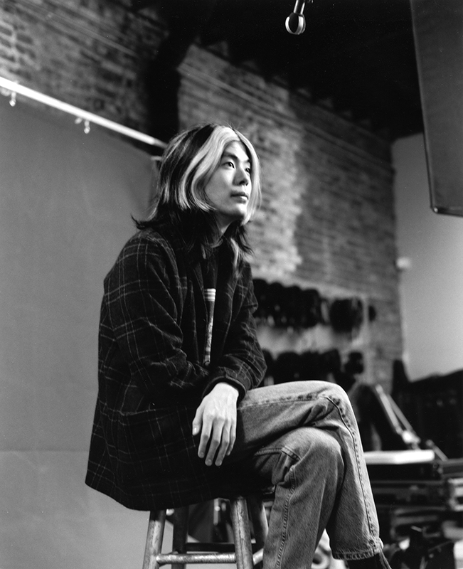 James Iha in 1995, while a part of The Smashing Pumpkins